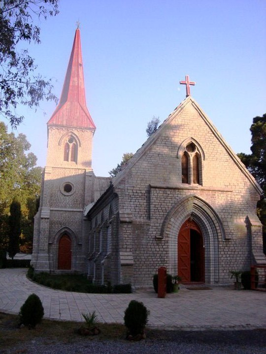 A view of St Luke's Church, Abbottabad, Pakistan